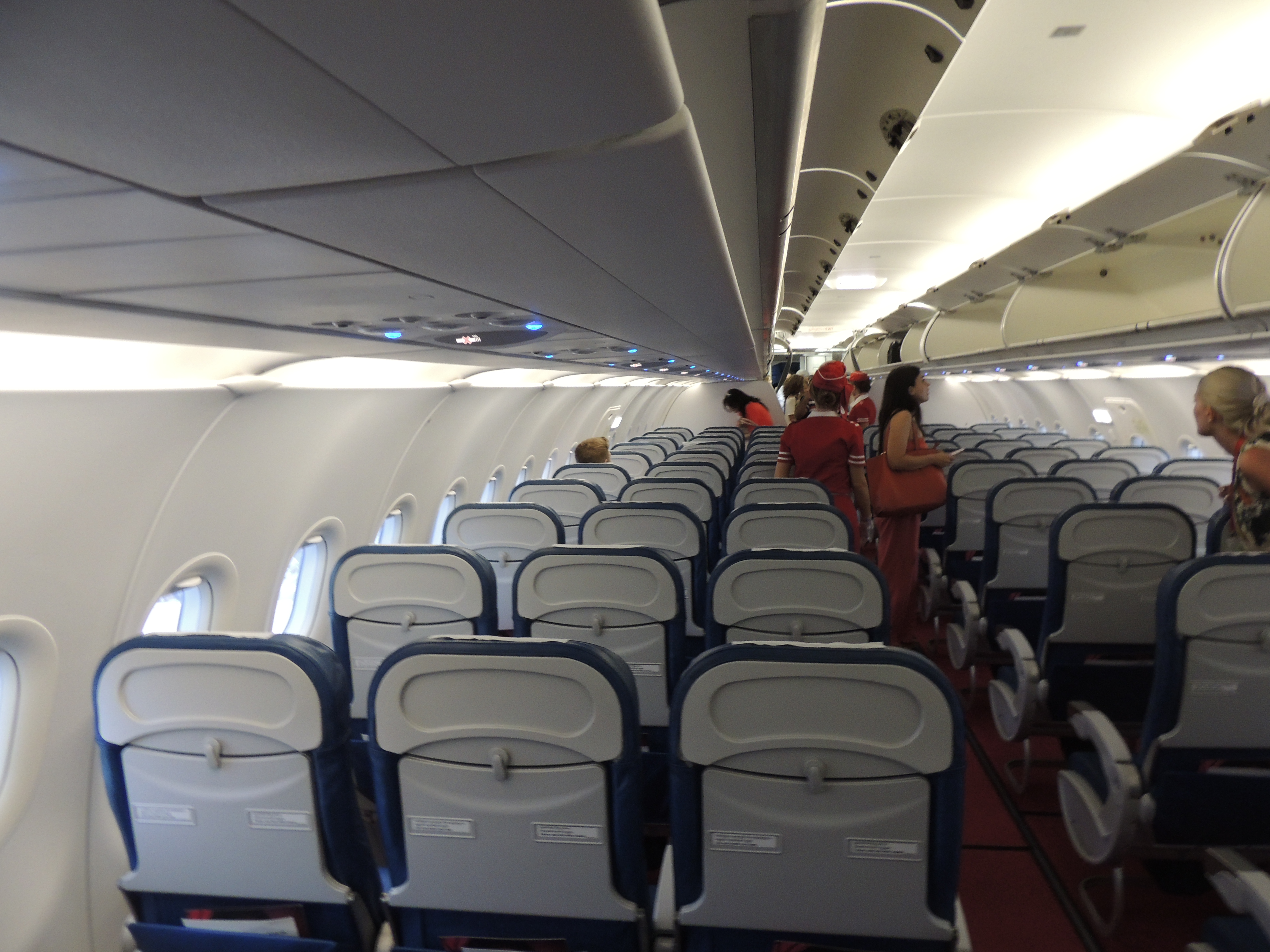 Cabins of Airbus A319 FlyGeorgia